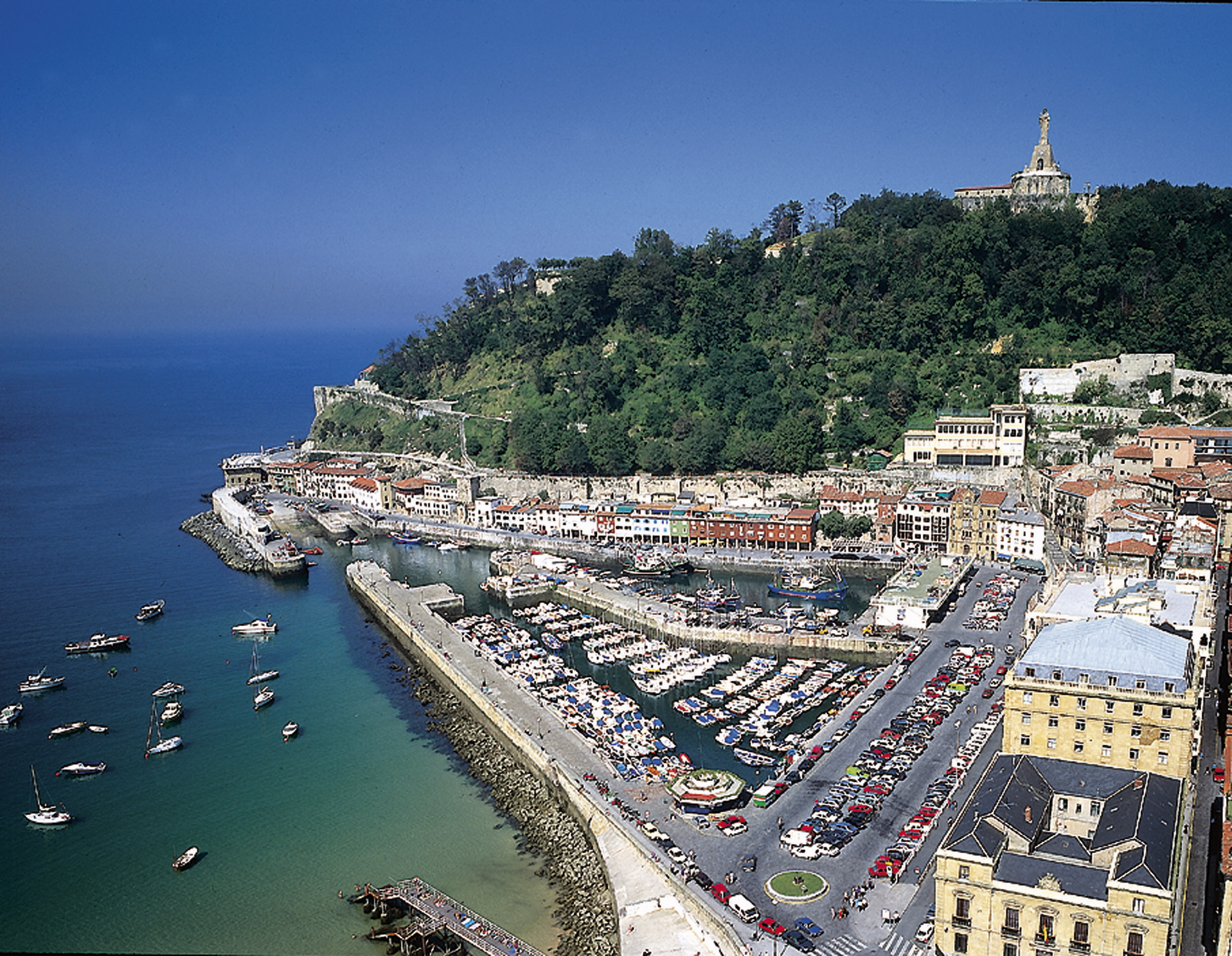 Port of Donostia-Saint Sebastian. Gipuzkoa, Basque Country.